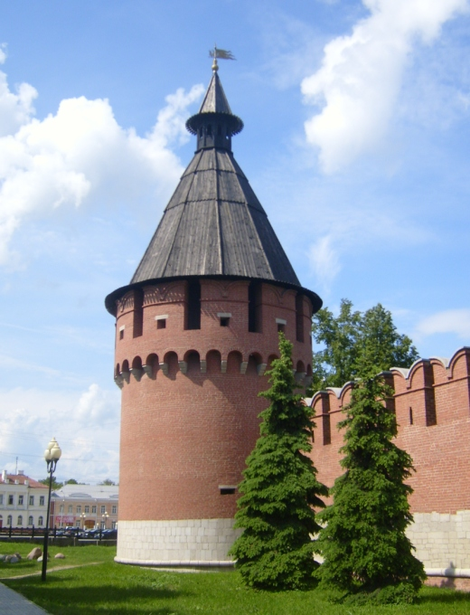 Spasskаyа Tower of the Tula Kremlin